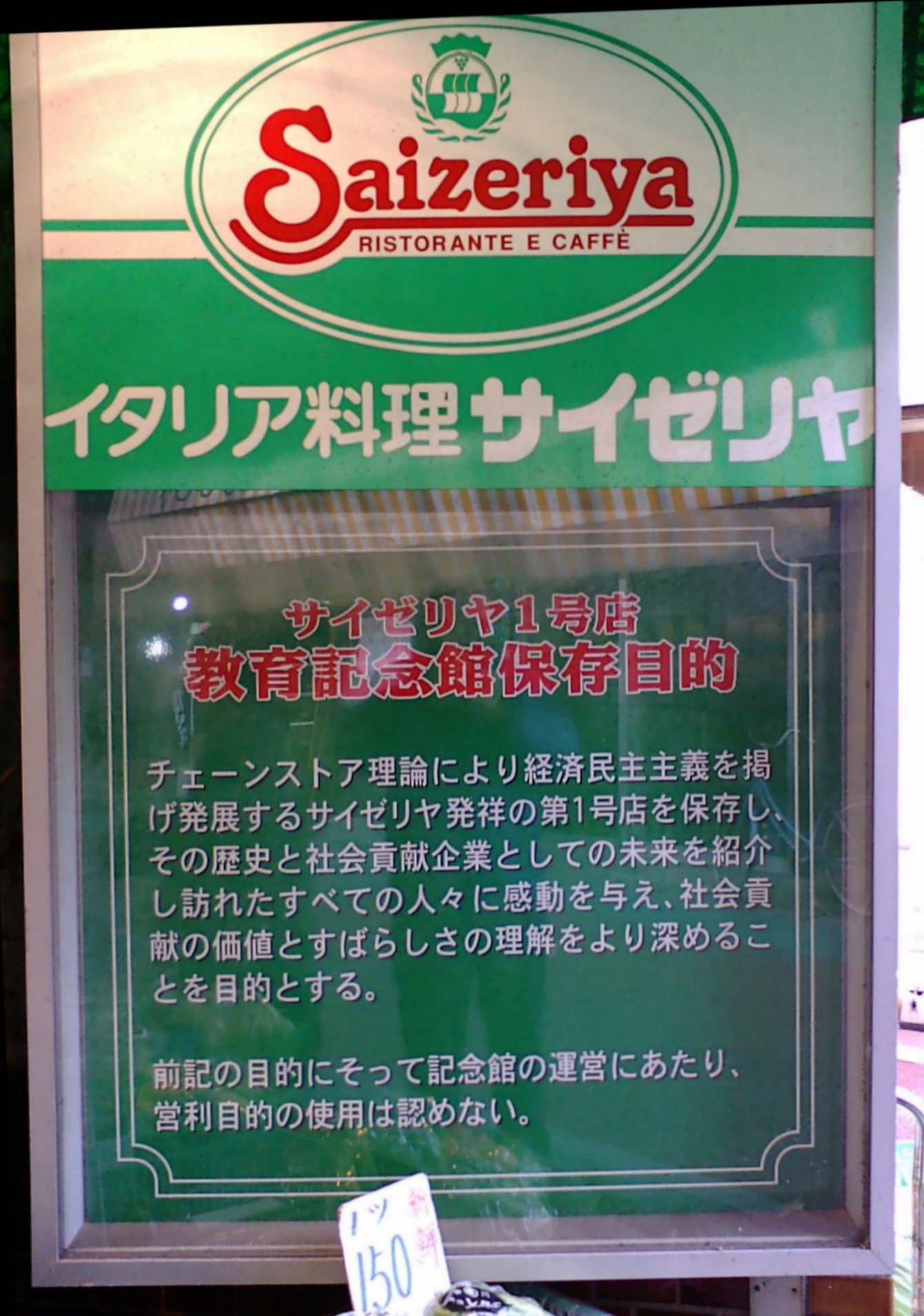 Saizeriya 1st shop memorial plate to indicates management policy.